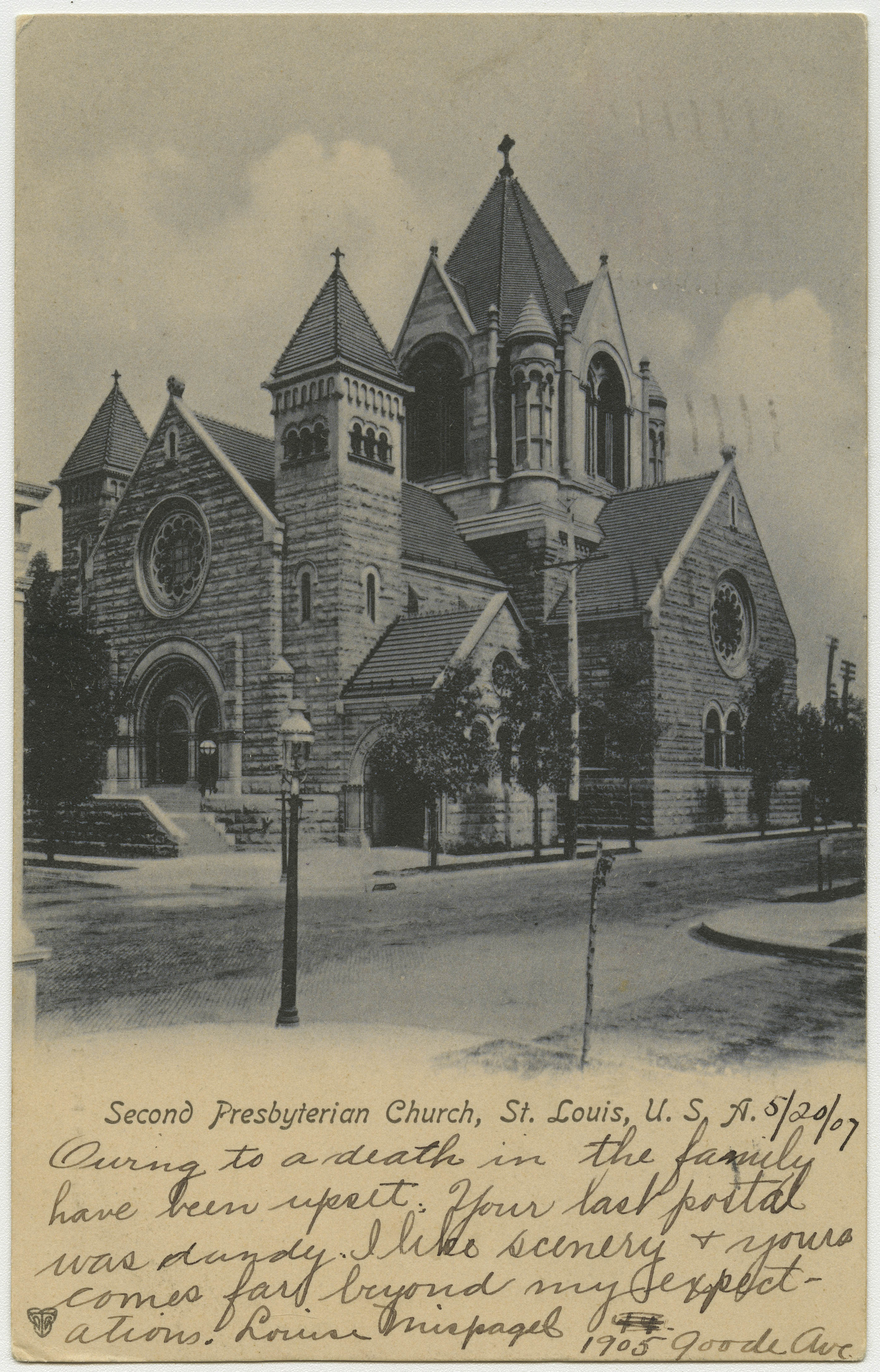 Second Presbyterian Church in St. Louis, Missouri from a pre-1923 postcard From RG 428, Postcard Collection, Presbyterian Historical Society, Philadelphia, Pennsylvania.